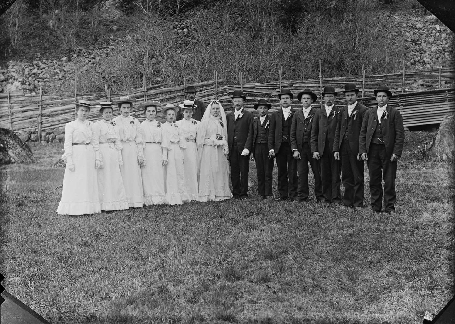 Depicted person: Bondas Fredrik Larsson; Sara Ottosson, LÄRARINNA